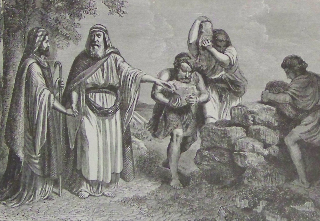 The Heap of Witness, as in Genesis 31:44–46, illustration from the 1890 Holman Bible